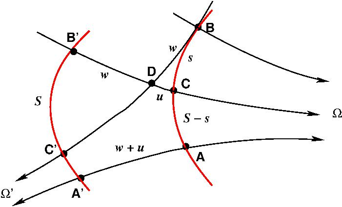 Basic figure for Lobachevsky coordinates.